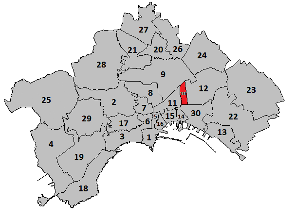 Vicaria in Naples